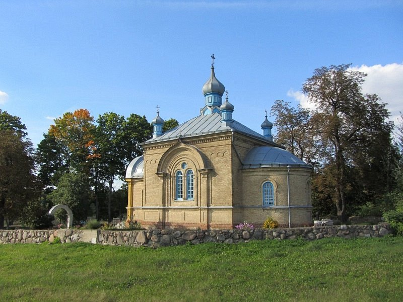 Church of the Dormition, Belarus